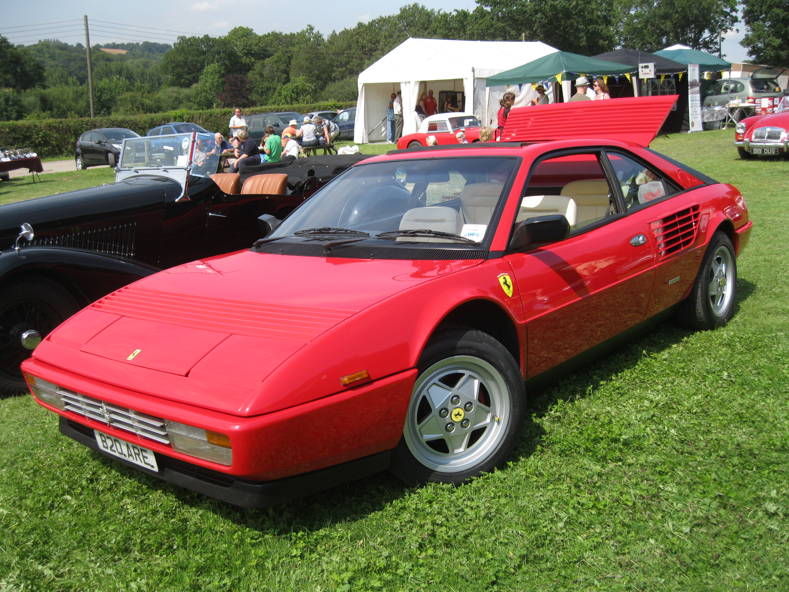 Spotted at Bluebell Railway Transport weekend, Horsted Keynes Station, Sussex in August 2012.